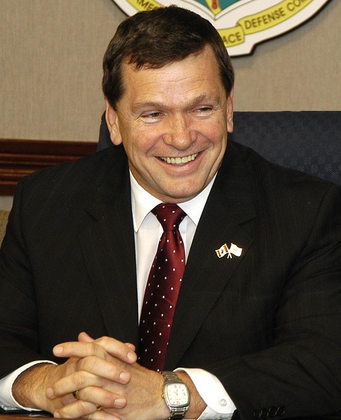 Cropped version of Frank McKenna.jpg